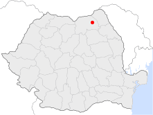 Location of Suceava in Romania.